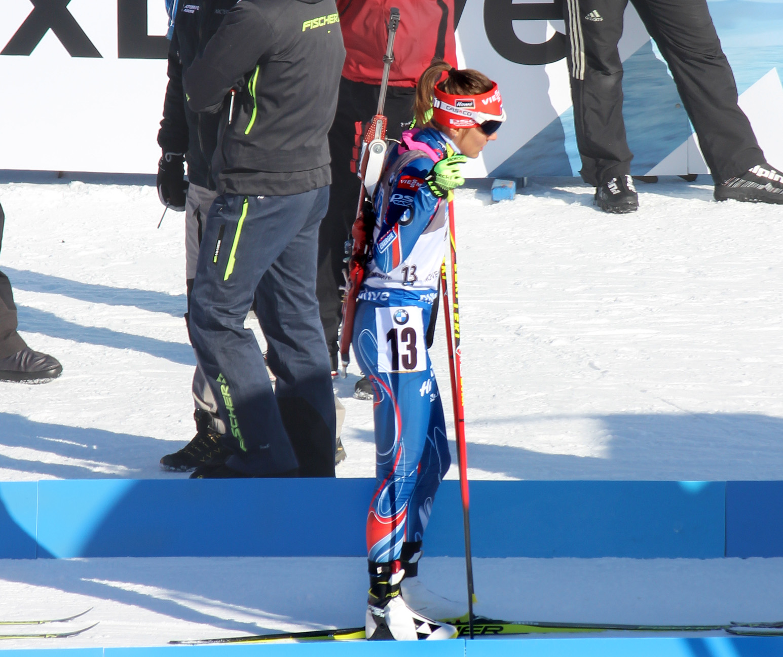 Jitka Landová at Biathlon World Cup 2015 in Nové Město, Czech Republic – sprint women